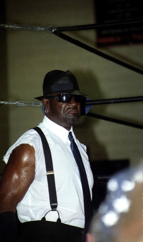 Wrestling legend Mr. Hughes on 3/28/09 from Franklin PA